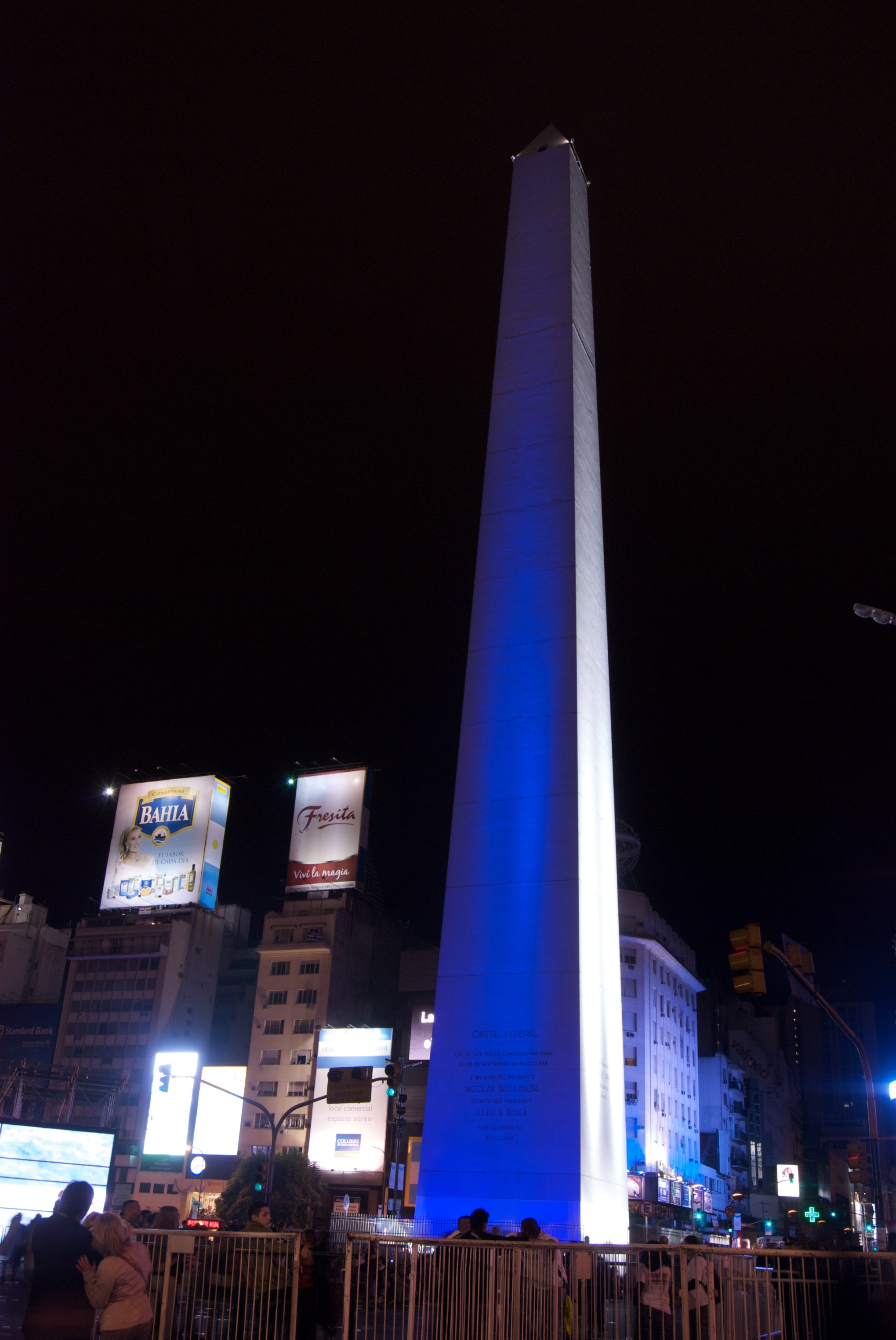 Obelisco. Celebrating the Argentine Bicentennial.